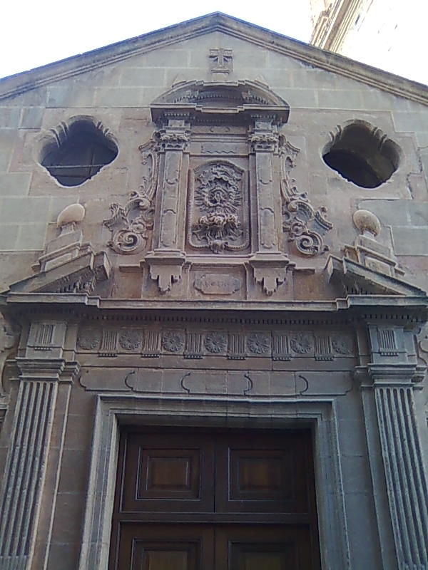 Communion Chapel next to Church of La Asuncion in Almansa (Spain).